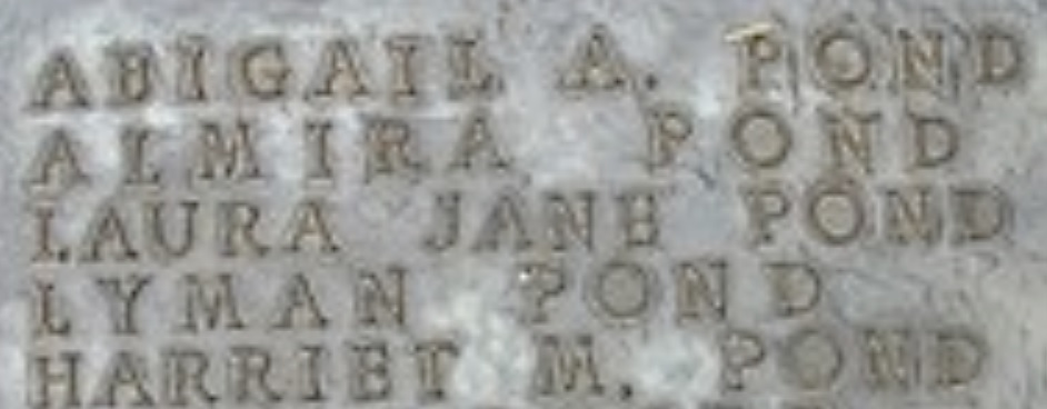 Pond Memorials at Winter Quarters